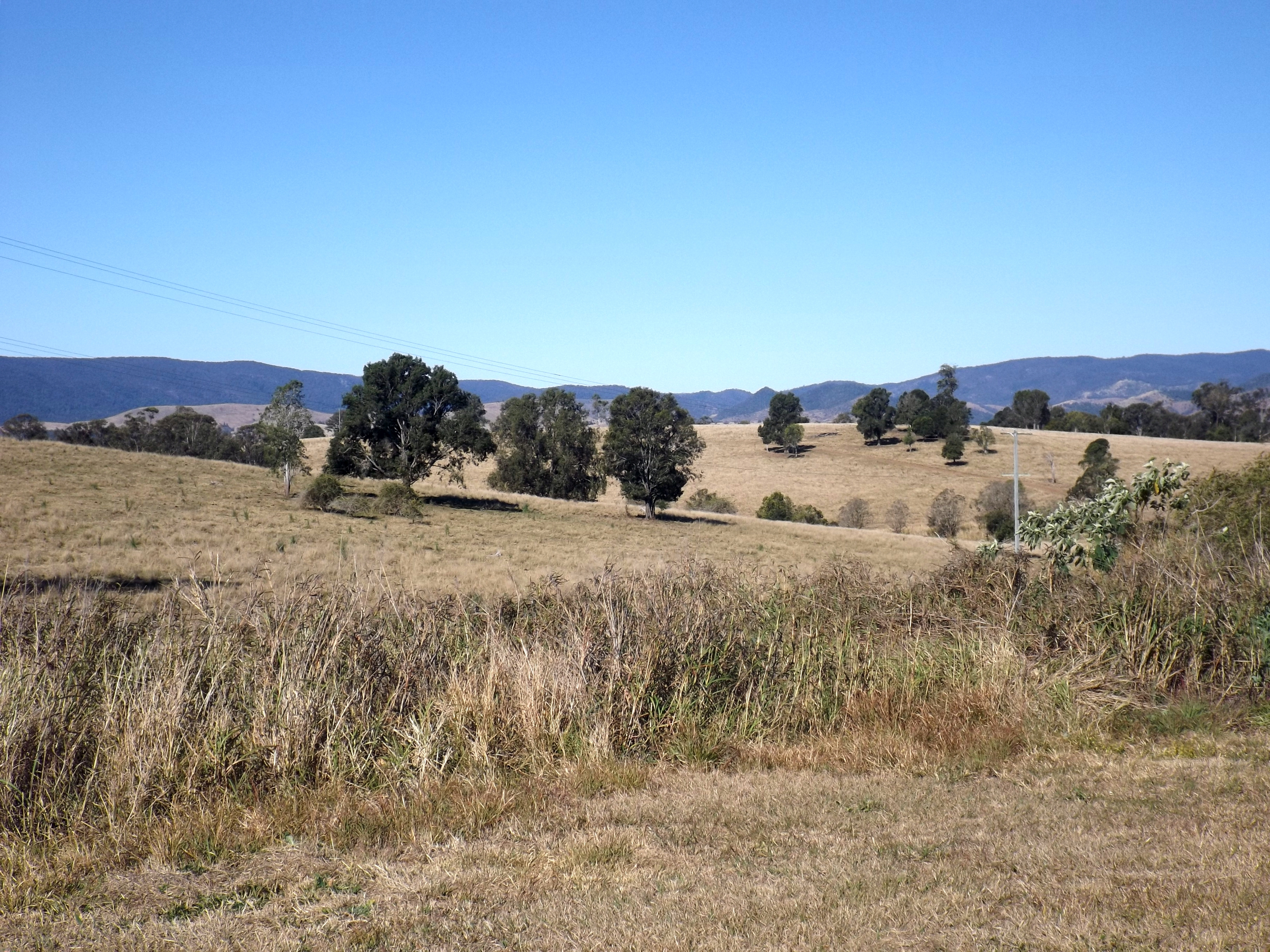 Photo of the paddocks at Woolmar, Somerset Region, Queensland, Australia.